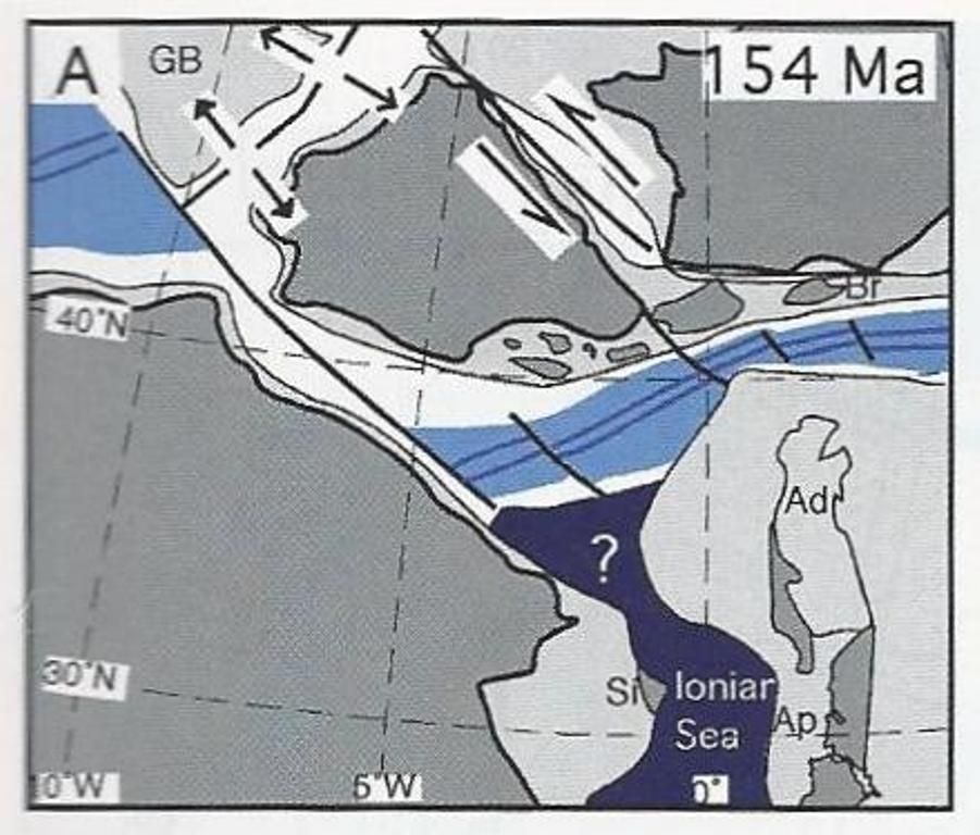 W - Mediterranean plate tectonic (Rosenbaum et al., 2002) during late Jurassic times. Paleogeographic maps and briançonnais margin evolution in the Prealps (Dogger carbonate platform) is shown in following fig. This portion of the Briançonnais microplate was situated roughly in front of Monaco (Br on fig.) or eastward, during the Jurassic.